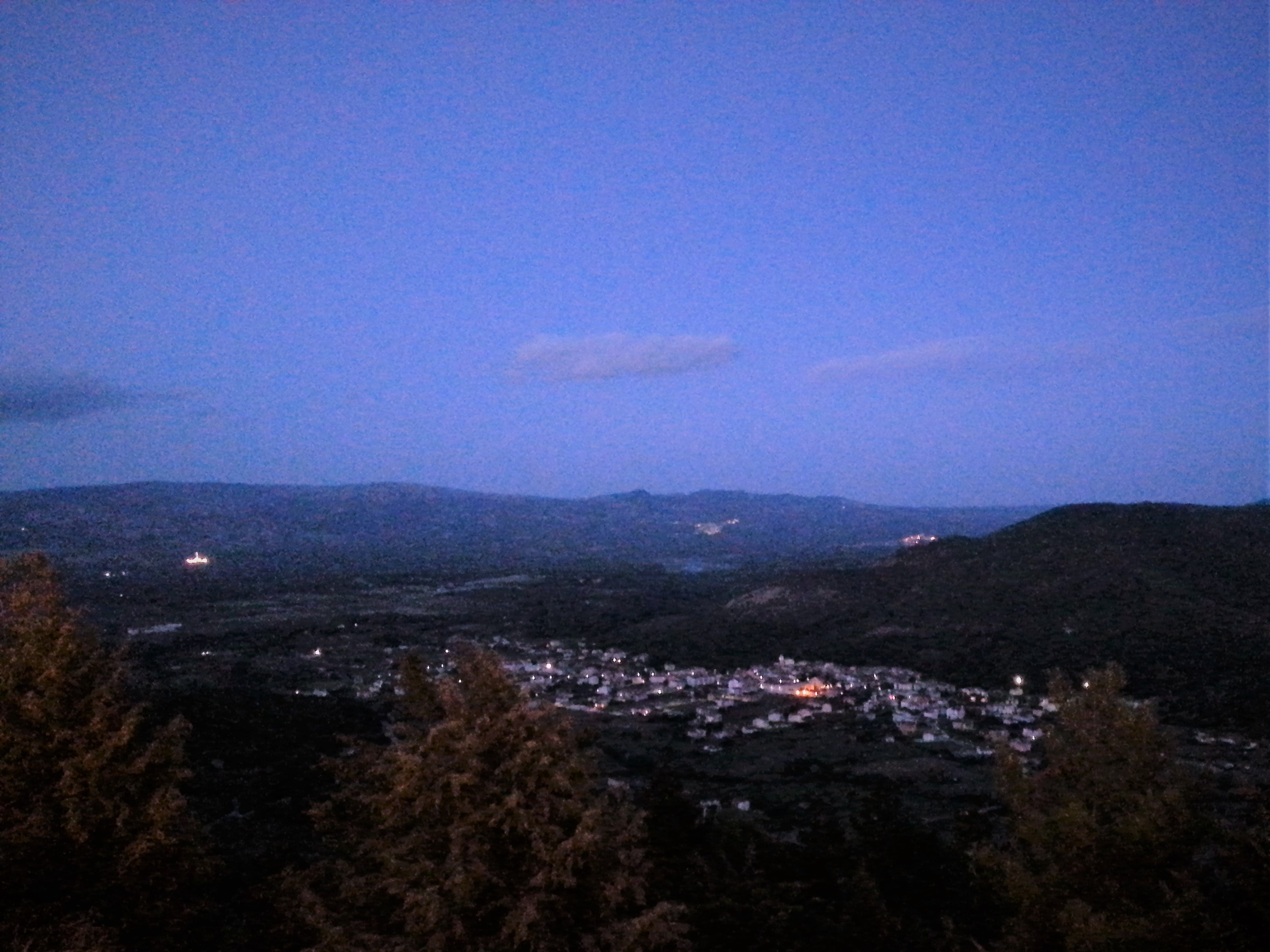 Sarconi municipality seen from Moliterno's castle